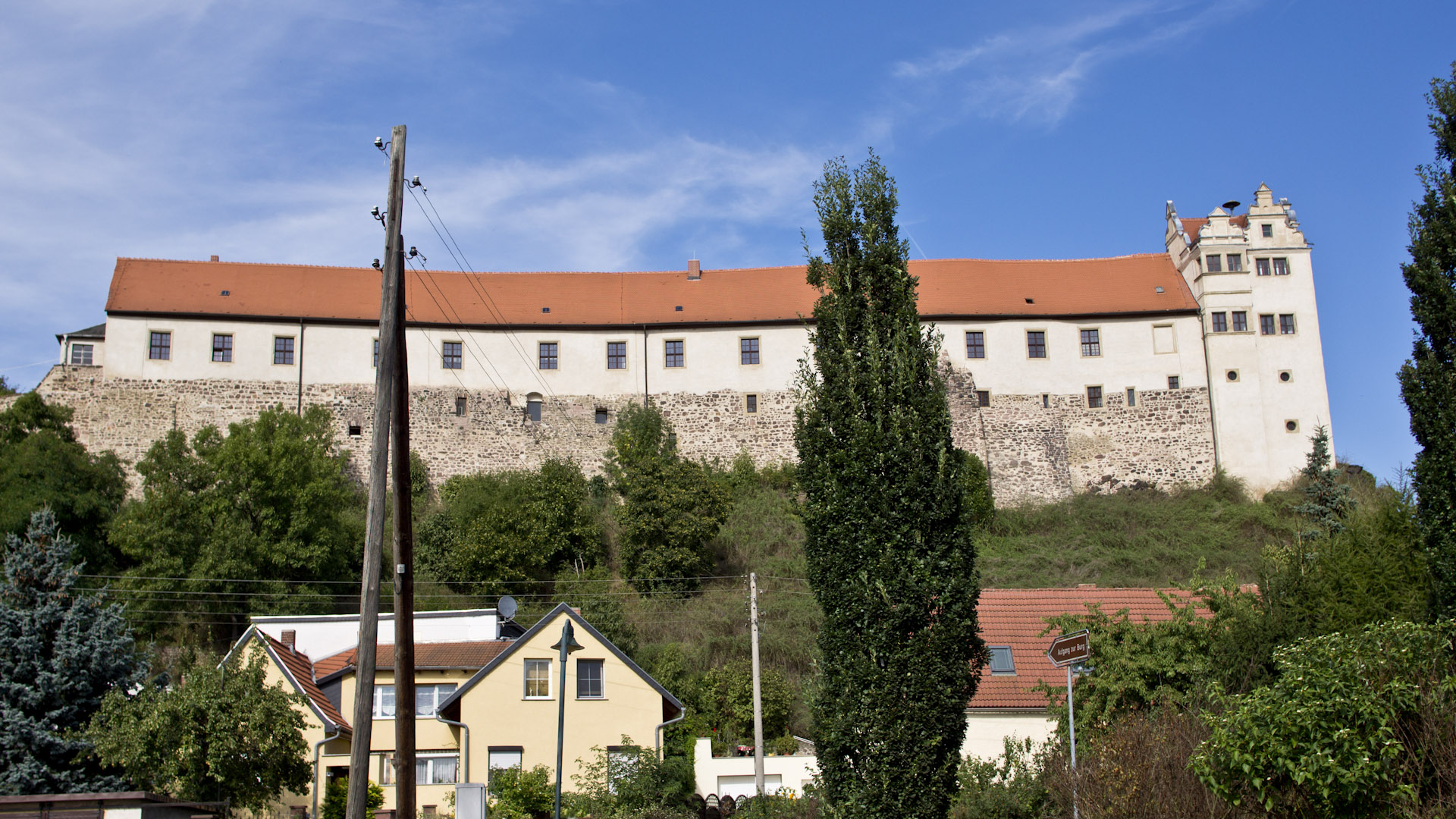 Wettin Castle as seen from the Saale Cycle Route